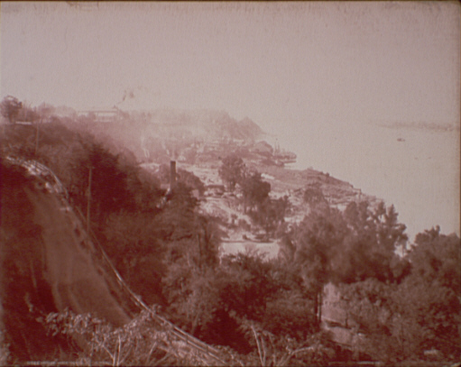 Natchez, under the hill and the Mississippi